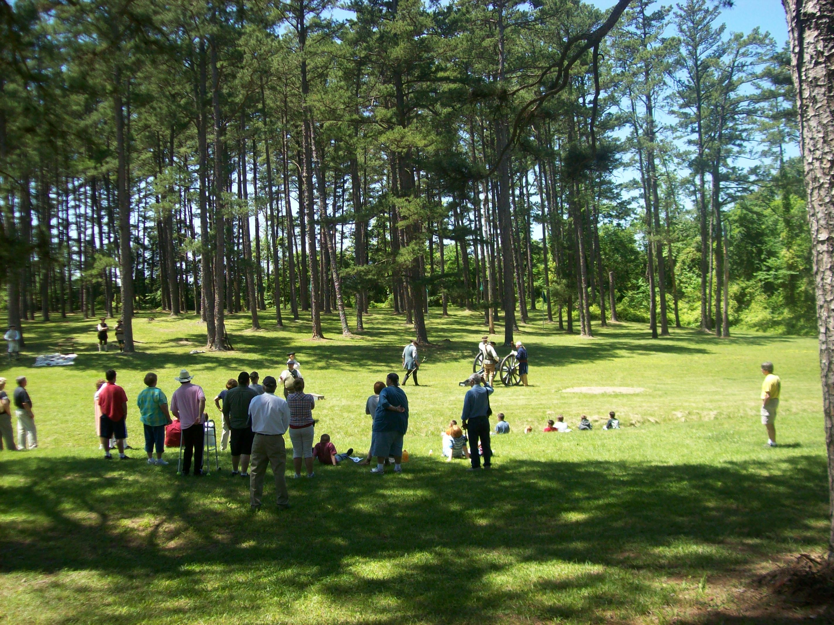 Alamance Battleground, May 17, 2008